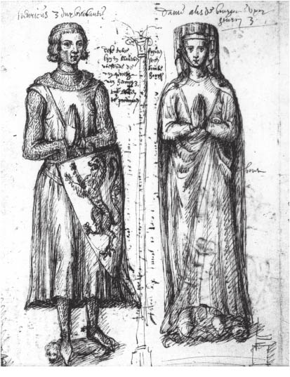 Henry III of Brabant and Adelaide